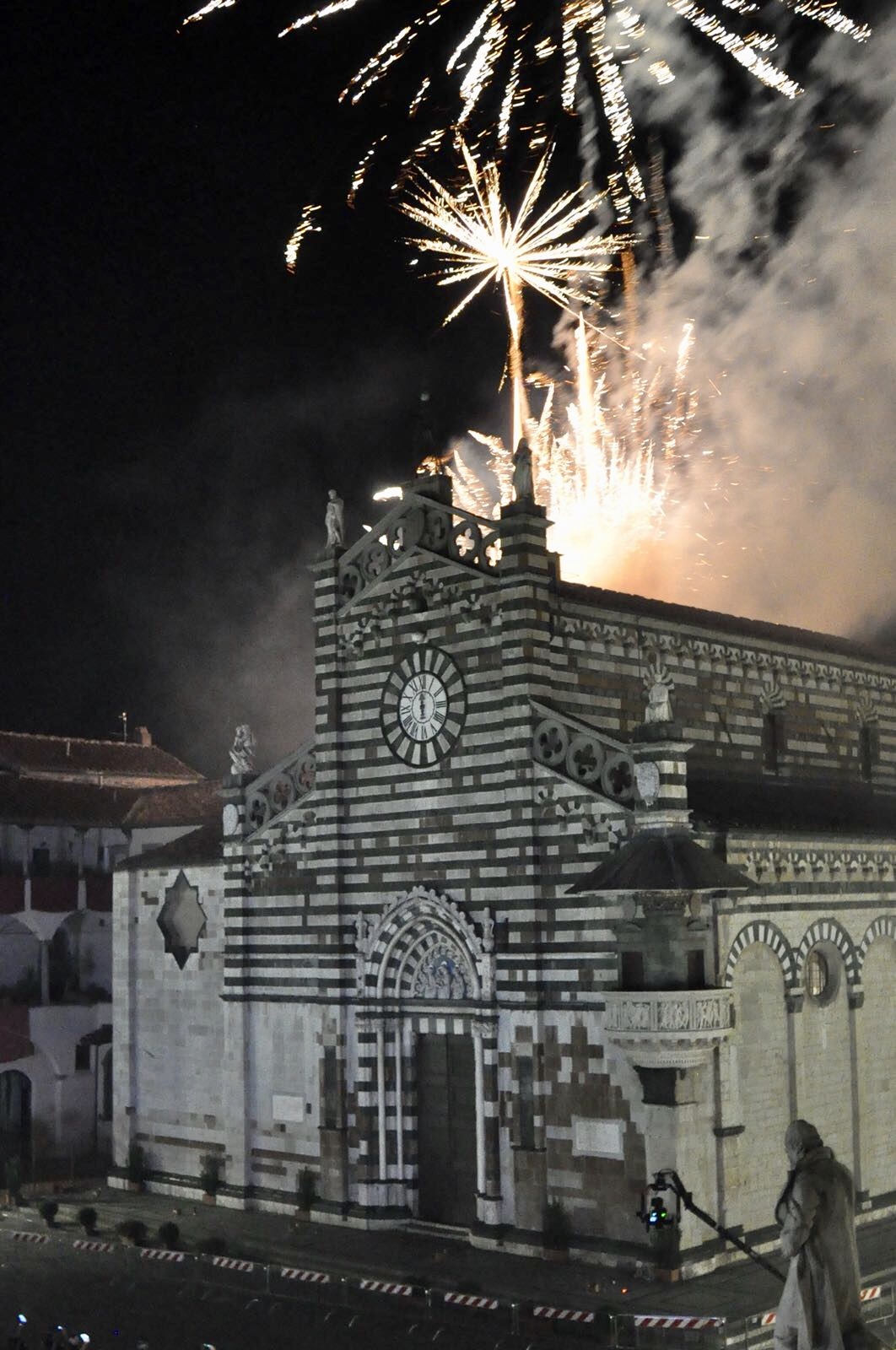 Historical Parade Prato 2018